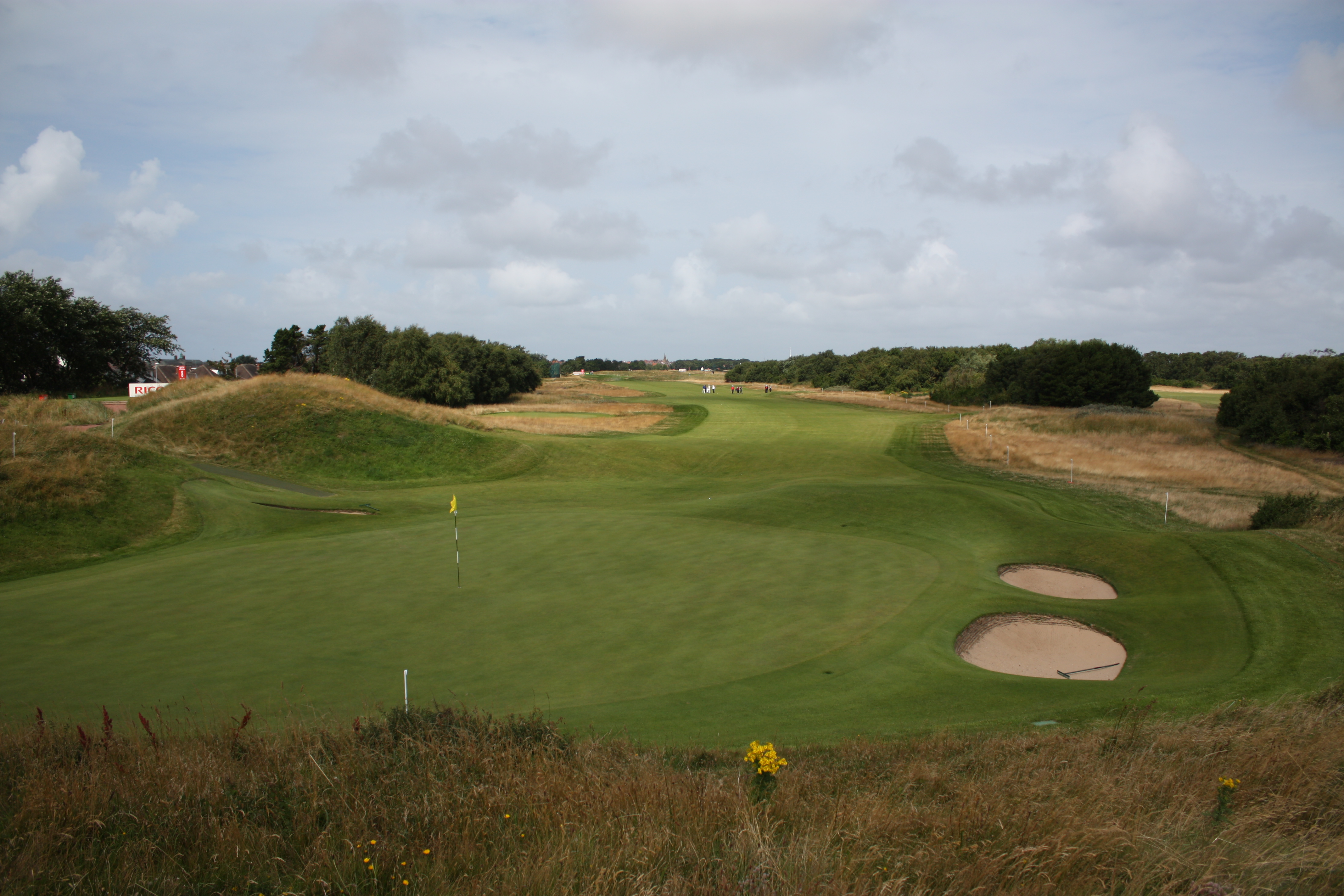 LYTHAM ST ANNES, UNITED KINGDOM - JULY 27: 7th hole green before 2009 Ricoh Women's British Open held at Royal Lytham & St Annes on July 27, 2009 in Lytham St Annes, England. (Photo by Wojciech Migda)